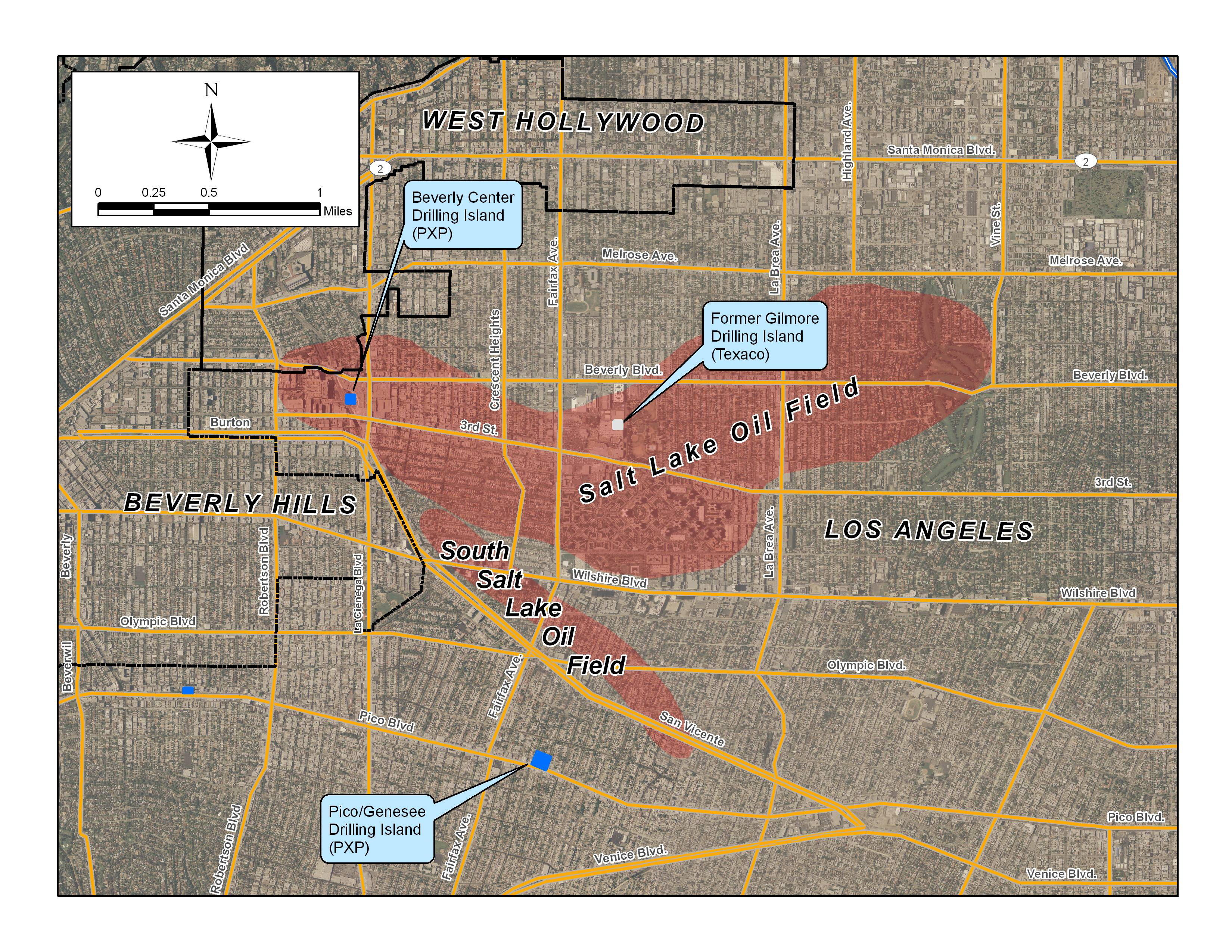 Detail of Salt Lake and Salt Lake South oil fields and surrounding part of Los Angeles; by self in ArcGIS 9.3 using public domain data